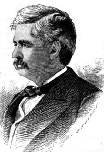 Ambrose Ranney, US Representative from Massachusetts